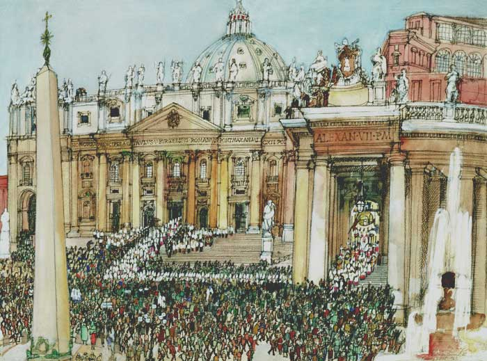 A procession of Cardinals enters St. Peter's in Rome, opening the Second Vatican Council. Painting by Franklin McMahon